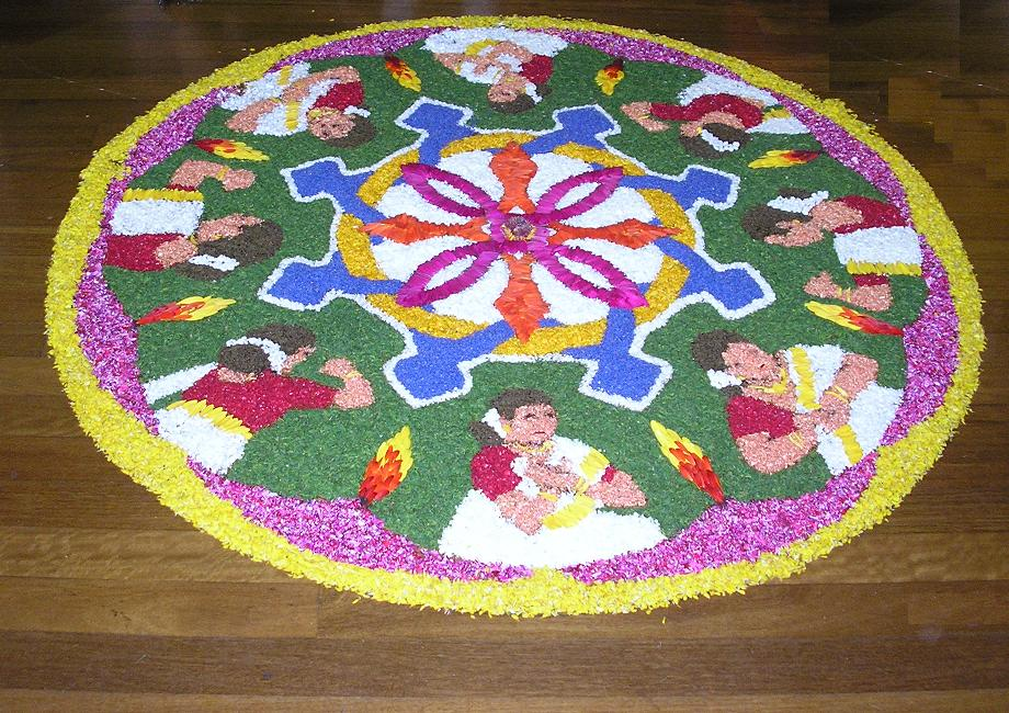 Pookalam-2008-Melbourne